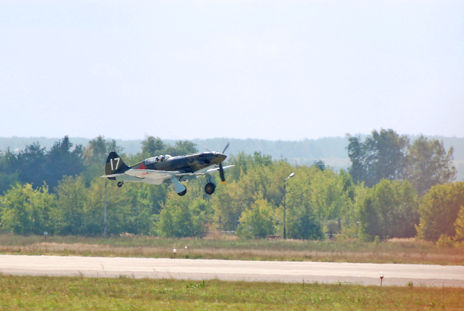 МиГ-3Р in flight (the international aerospace salon MAKS-2007)